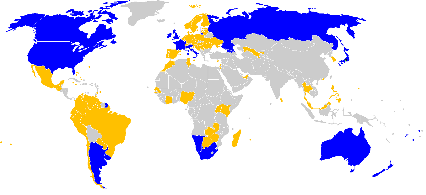 Map showing the status of different countries in qualifying for the 2019 Rugby World Cup